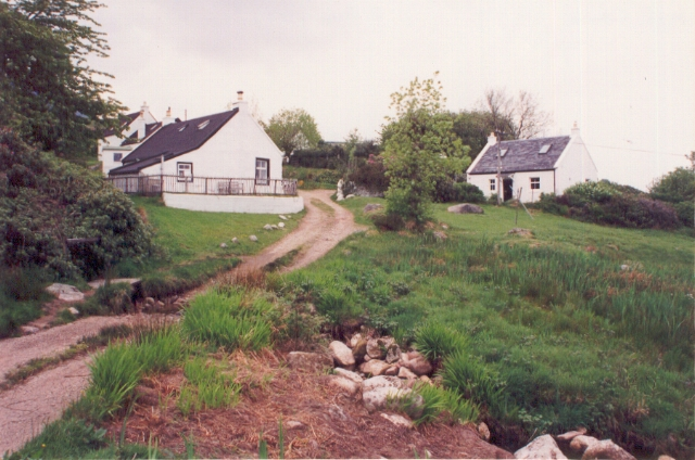 High Corrie. Hillside hamlet on Arran.